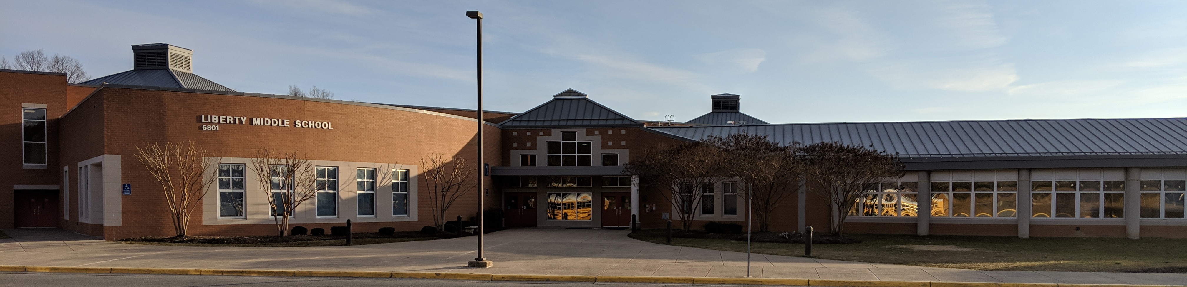 liberty middle School Fairfax county Virginia